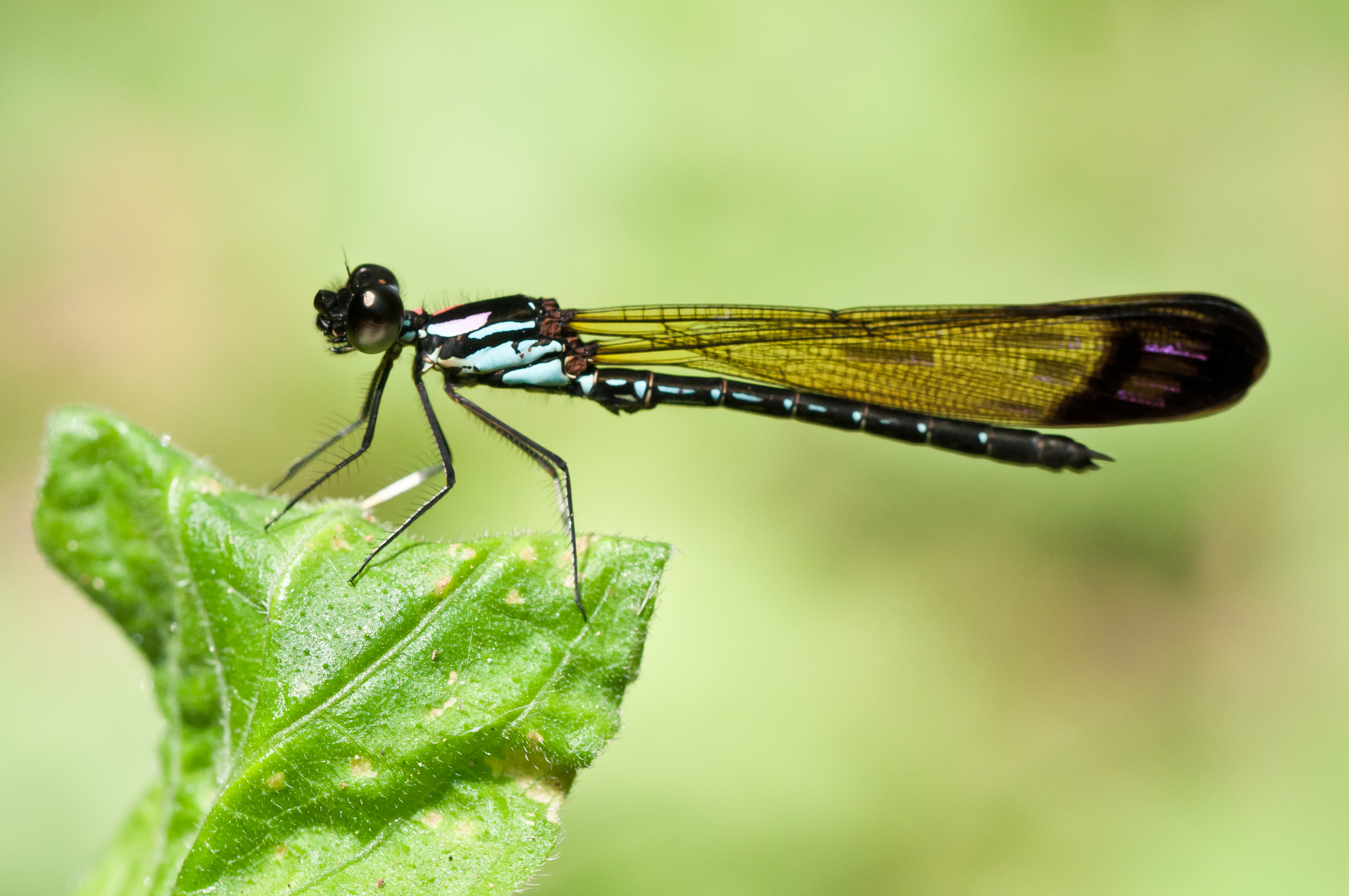 Euphaea masoni (female) - Kaeng Krachan National Park, Thailand Photo by Rushenb